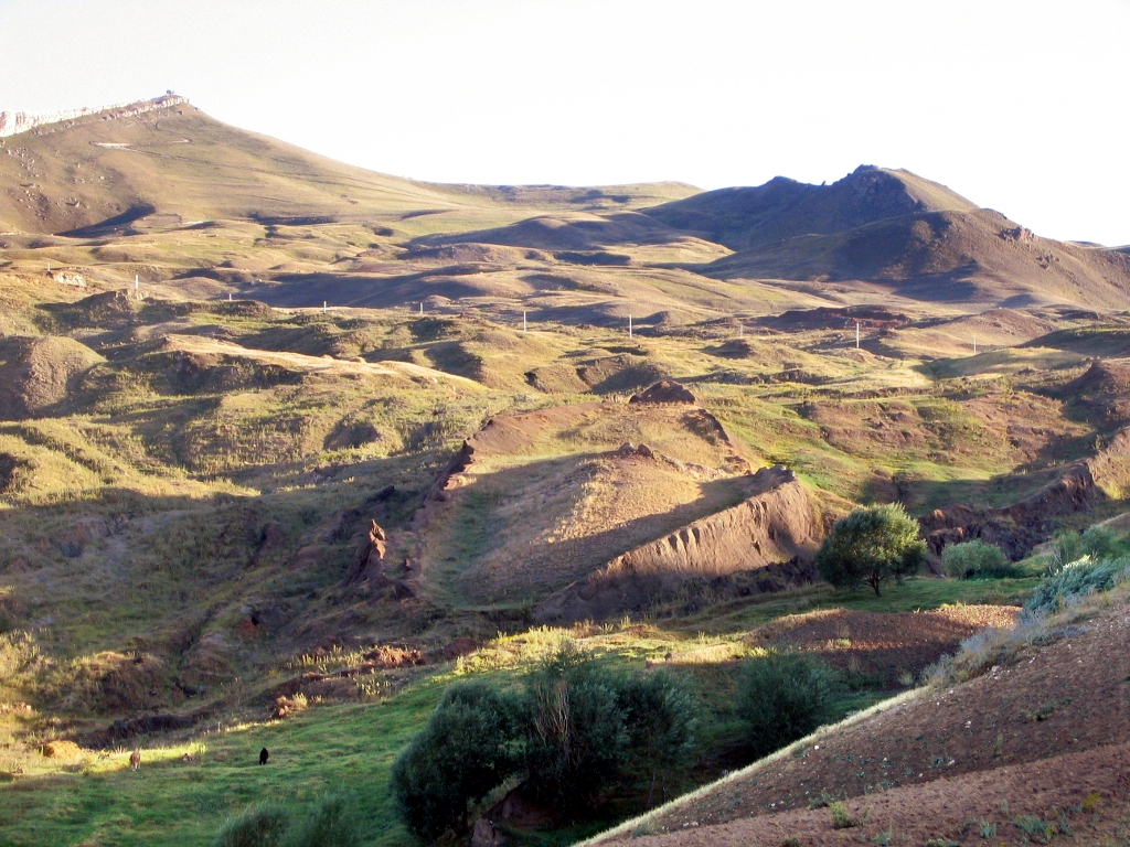 Durupınar site – The structure claimed to be the Noah's Ark near the Mount Ararat or Judi in Agri, Turkey